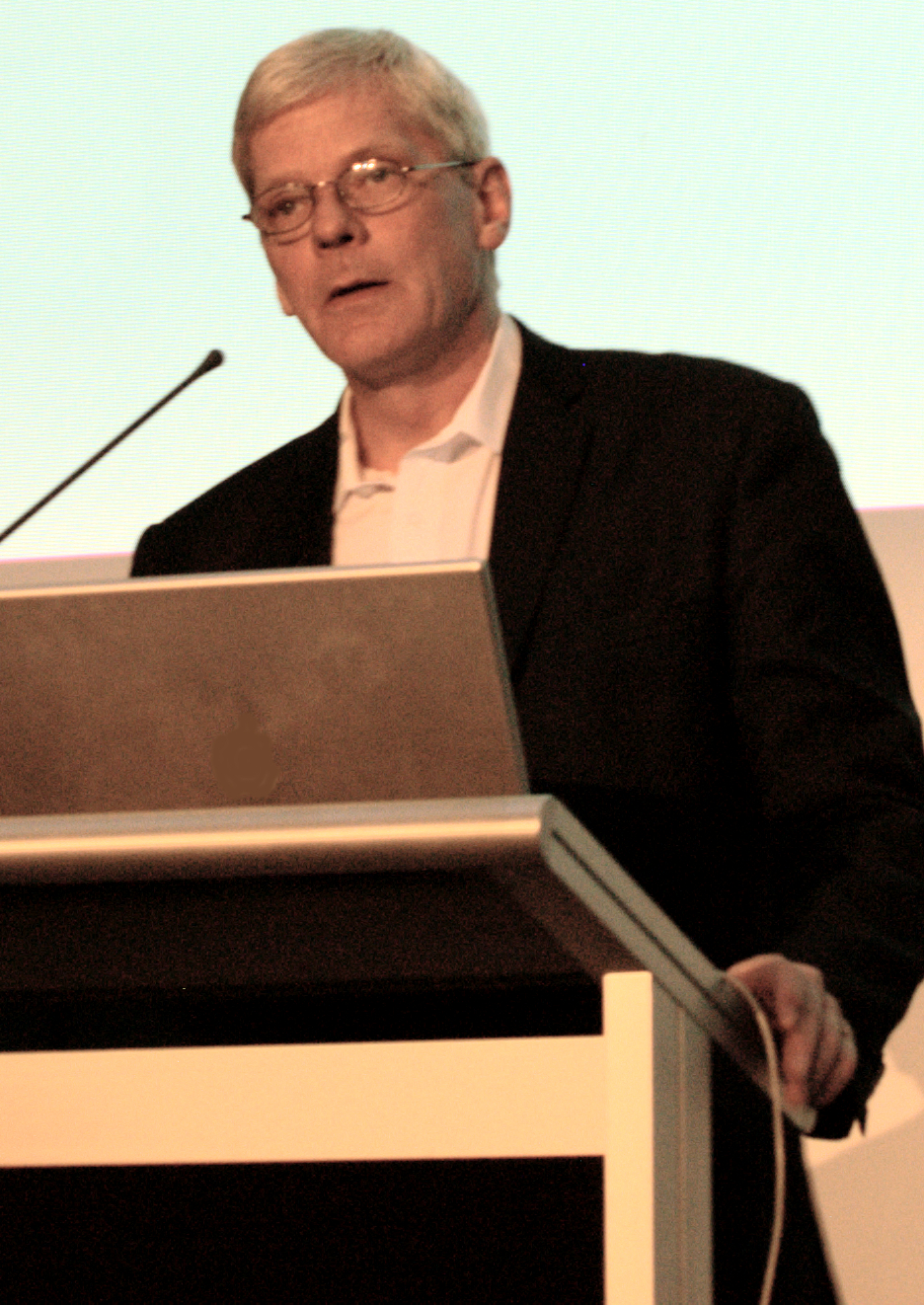 Wikileaks Spokesperson Kristinn Hrafnsson speaks at the Queensland College of Art, Griffith University, Southbank, Brisbane, Australia 110623